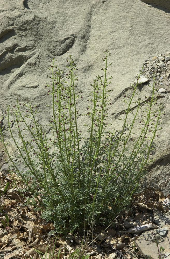 This mediterranian plant is called Scrofularia canina (Dog Scrofularia) in latin.